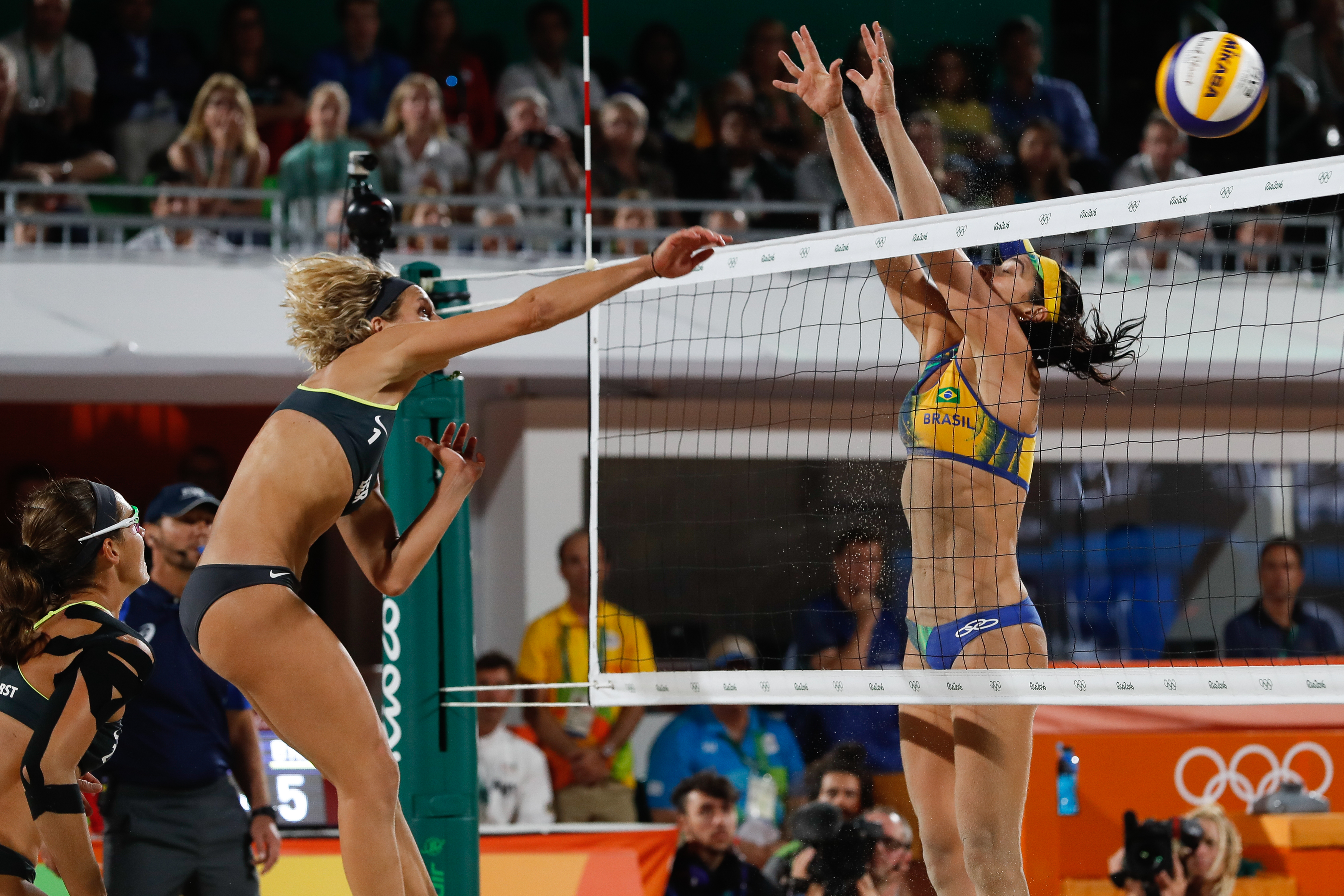 Rio de Janeiro - As alemãs Ludwig e Walkenhorst, levam ouro na final do vôlei de praia, contra as brasileiras, Ágatha e Bárbara, nos Jogos Olímpicos Rio 2016 ( Fernando Frazão/Agência Brasil)